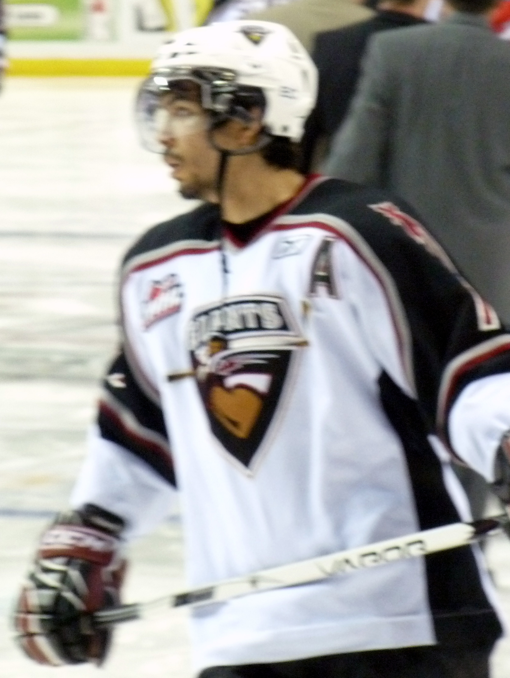 Vancouver Giants forward Casey Pierro-Zabotel during Game 7 of the second round of the 2009 WHL playoffs against the Spokane Chiefs.